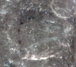 Closeup of Mersenius crater from Clementine